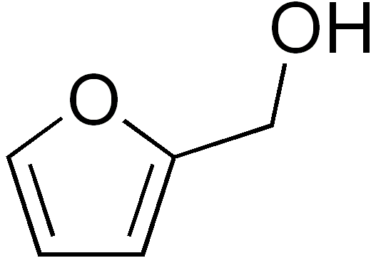 Chemical structure of furfuryl alcohol created with ChemDraw.